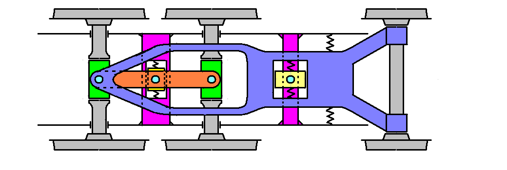 Scheme of Schwartzkopff-Eckhardt bogie